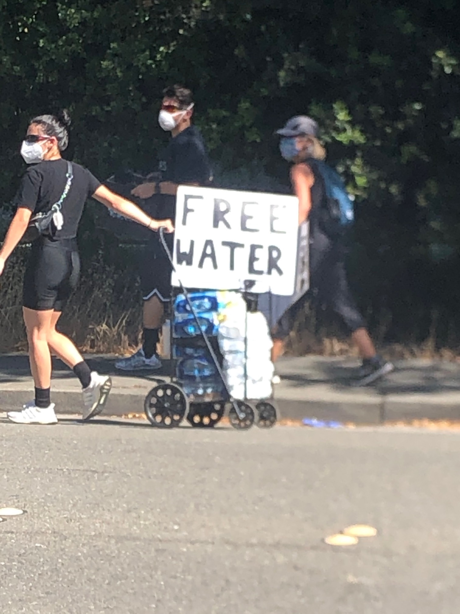 Distributing free water June 3, 2020 at the city of San Mateo Black Lives Matter protest during the COVID-19 pandemic